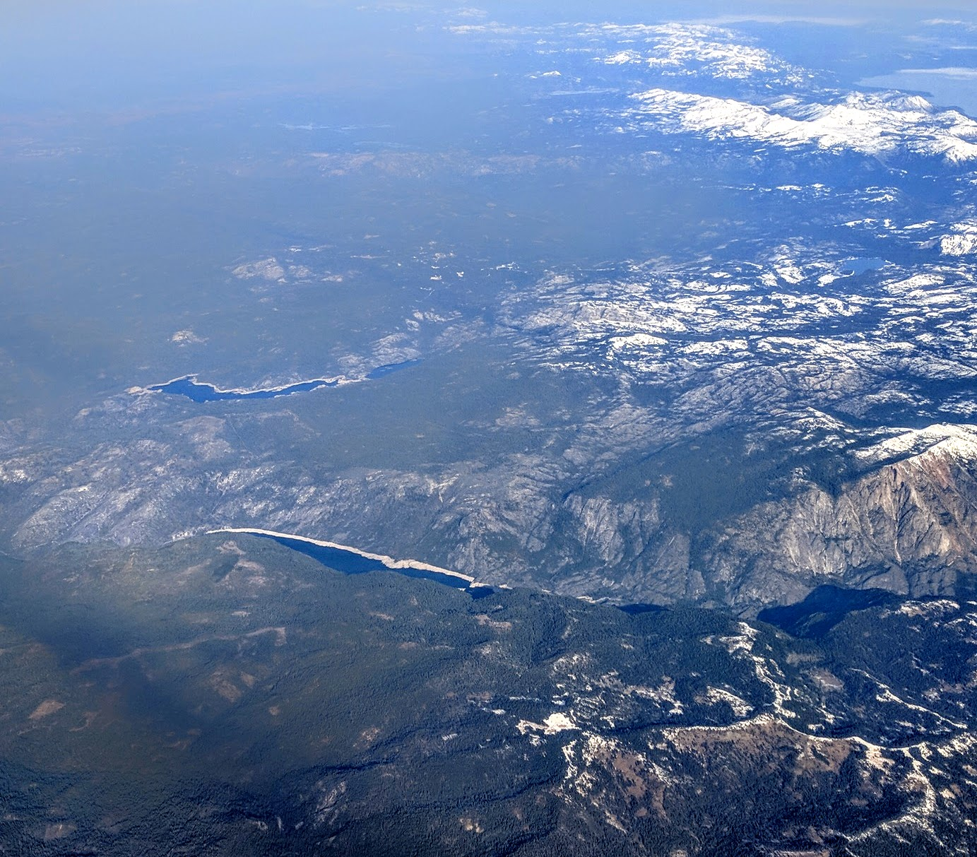 Salt Springs Reservoir (lower left) and Lower Bear River Reservoir (upper left) and (Upper) Bear River Reservoir (upper center) in the foothills of the Sierras between California highways 4 and 88, and Mokelumne Peak (far right); a portion of Lake Tahoe is visible (upper right).